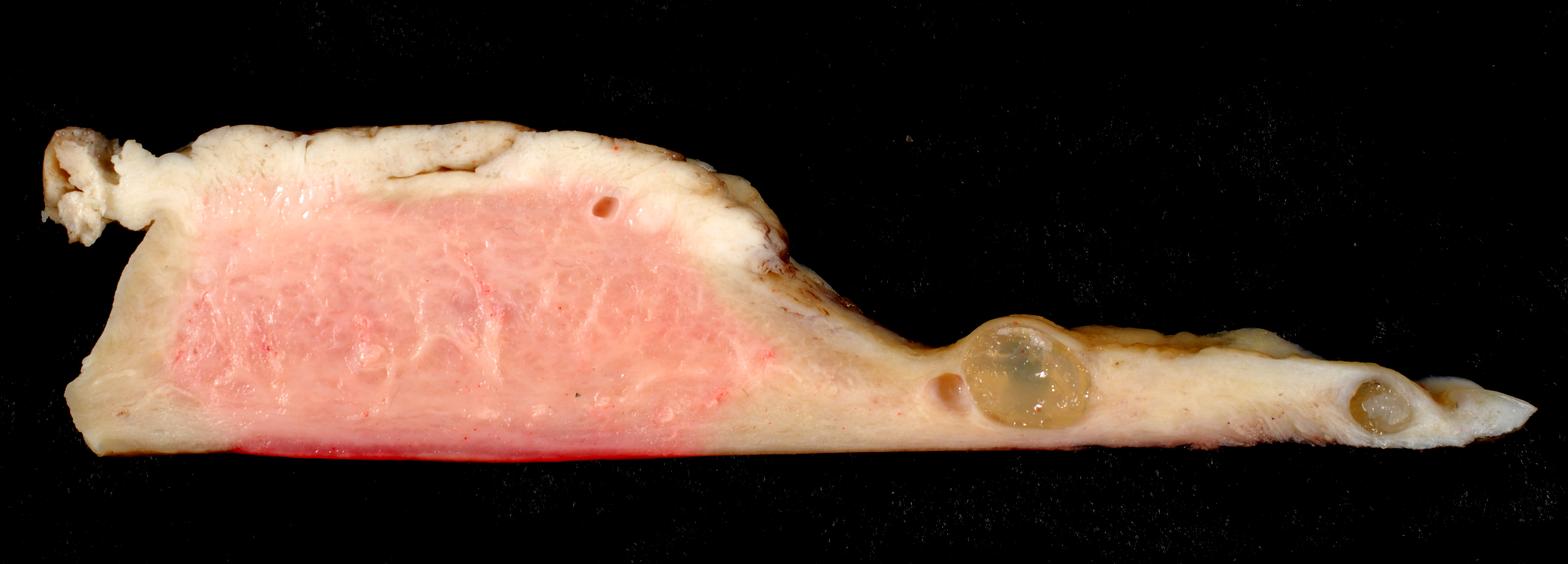 This grade-I adenocarcinoma was diagnosed by an endometrial biopsy done in the gynecologist's office. This is from the hysterectomy specimen. The tumor is limited ot the corpus uteri and does not grossly invade the underlying myometrium. This is a longitudinal sagittal section through the full length of the uterus. The corpus is to the left, and the rather elongate cervix trails off to the right. The hysterectomy specimen was bivalved, pinned out on a big bloc of paraffin wax, and floated in a vat of formalin overnight. The next morning, I cut this central section from the pinned-out half of the uterus. Top left: The carcinoma is limited to the surface of the endometrial cavity of the corpus uteri. Bottom left: No tumor is seen in the underlying myometrium. The prognosis of such non-invasive adenocarcinomas is excellent. Middle-right: Nabothian cysts are very commonly seen in the cervix and are of no clinical significance. Right: The cervix of this patient is unusually long and skinny.